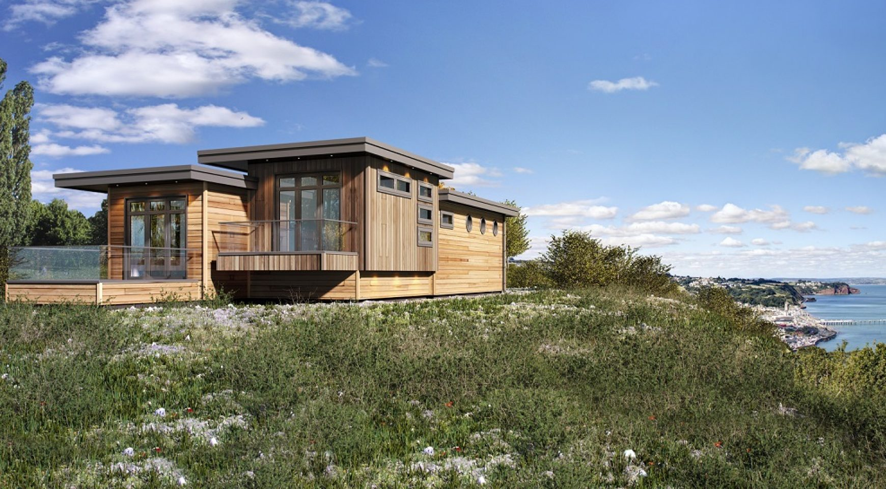 The Lookout Lodge by Prestige Homeseeker